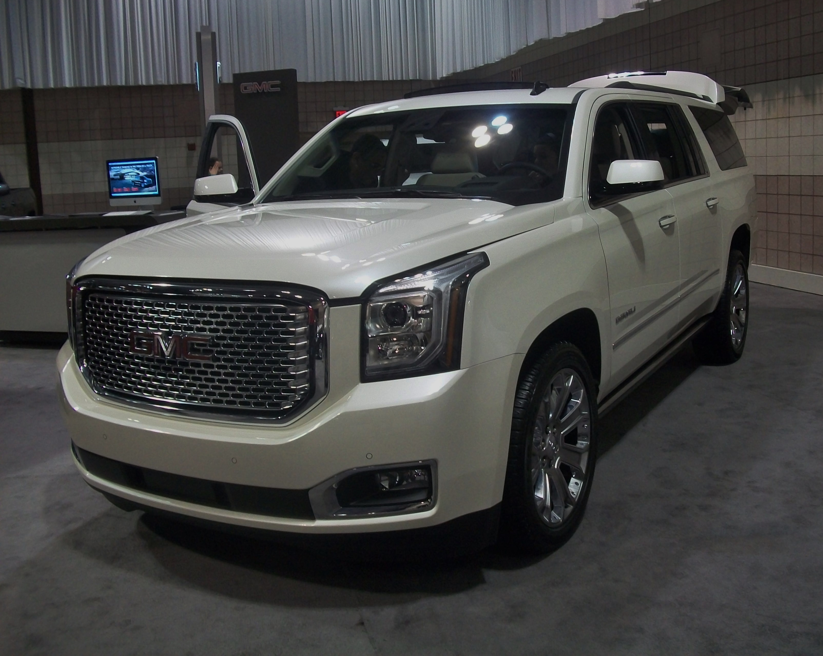 A 2015 GMC Yukon Denali XL displayed at the Rochester International Auto Show 2014